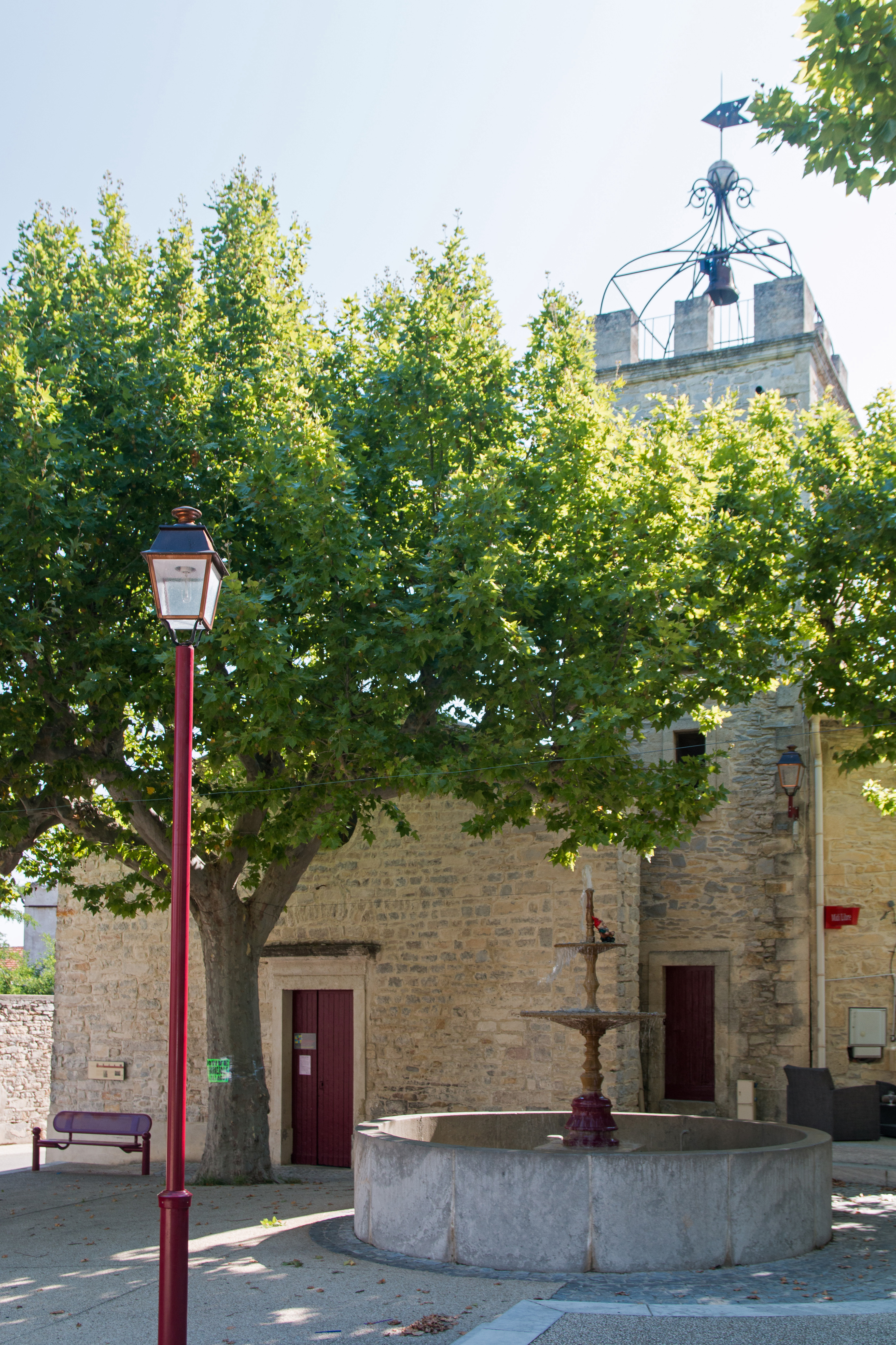 The Protestant church, former romanesque church and his clock tower surmounted by a wrought iron made campanile.